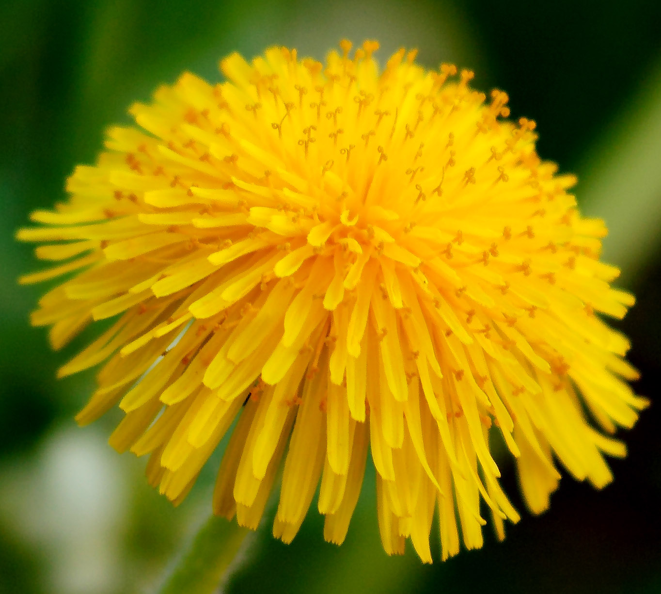 Self made picture of Dandelion flower head.